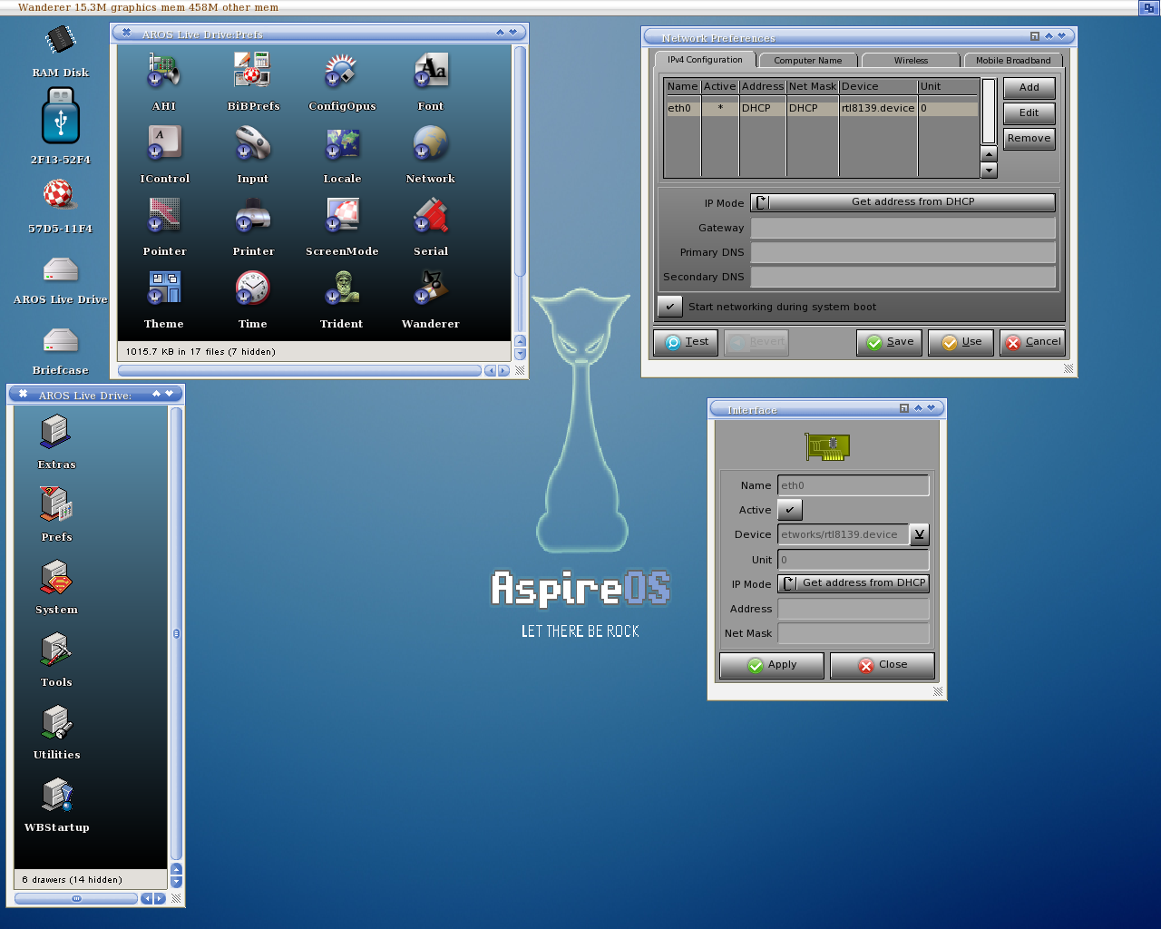 AROS Wanderer Network Prefs DHCP